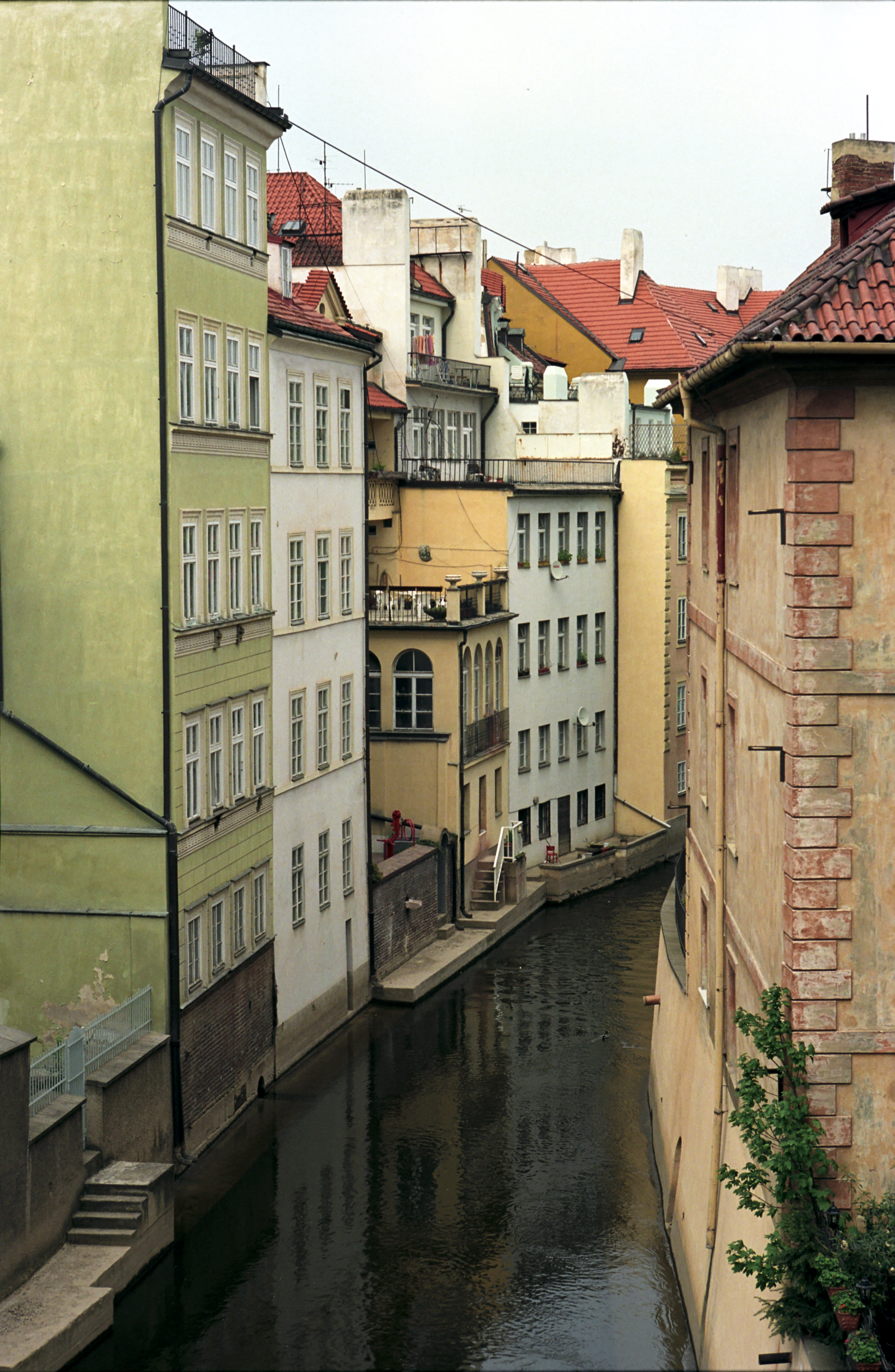 Kampa Island, Prague